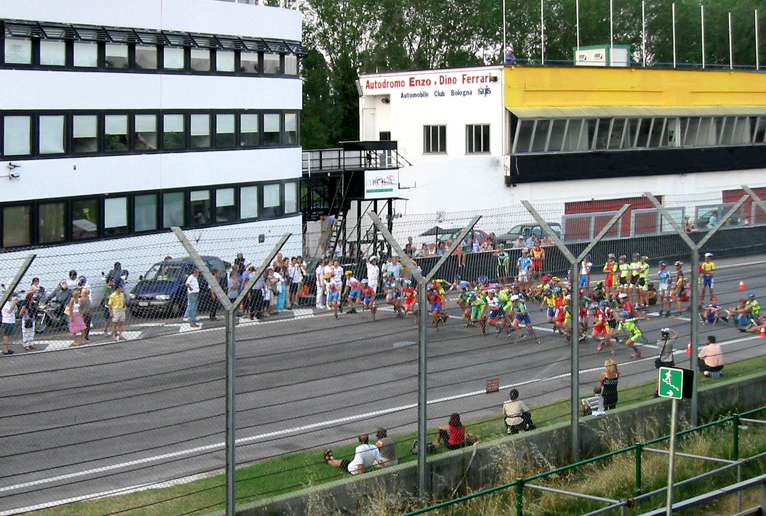 Autodromo Dino and Enzo Ferrari in Imola in Italy. Start of an inline-skater competition.